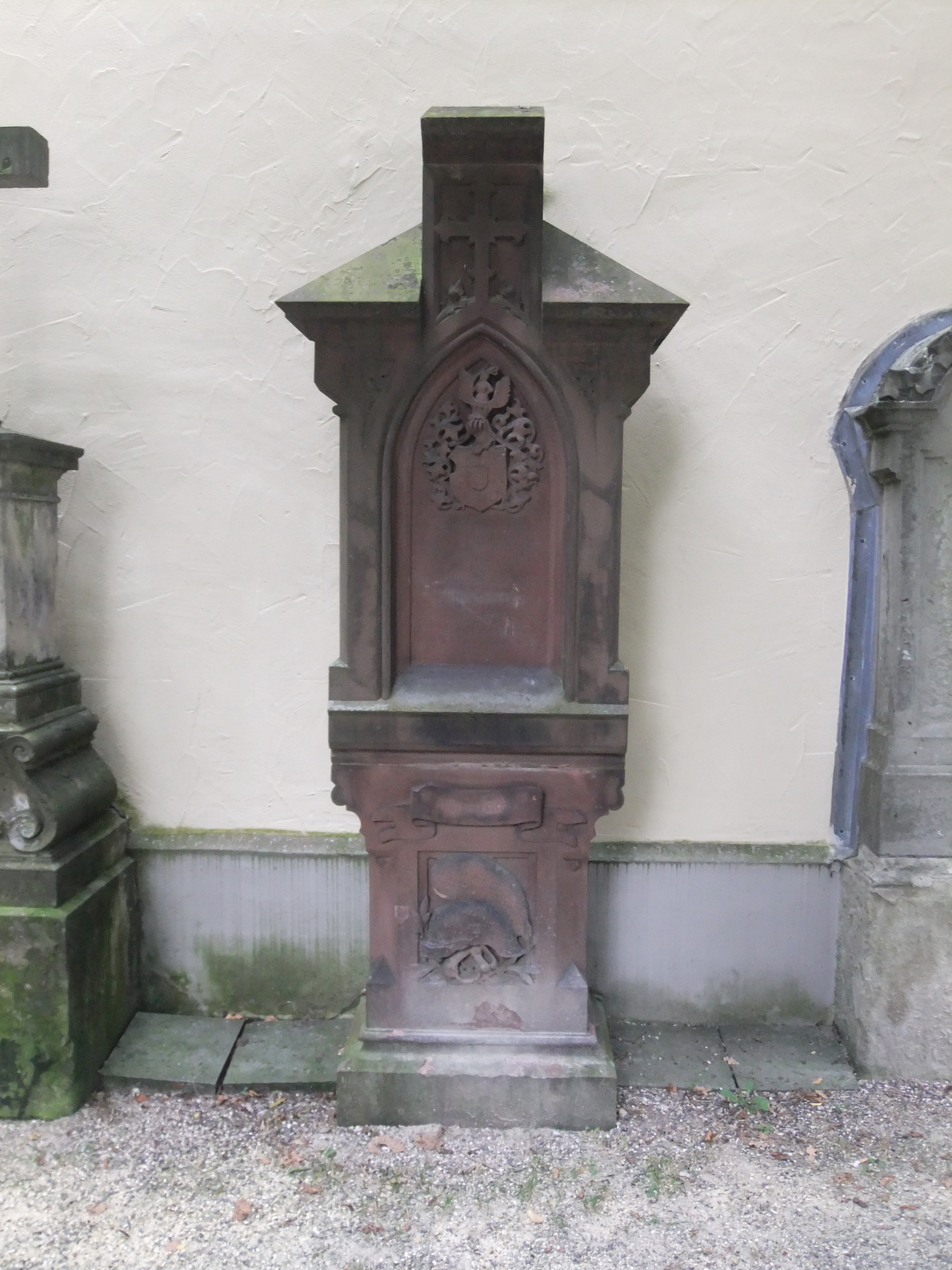 Tombstone of Carl Woldemar Neumann in Regensburg